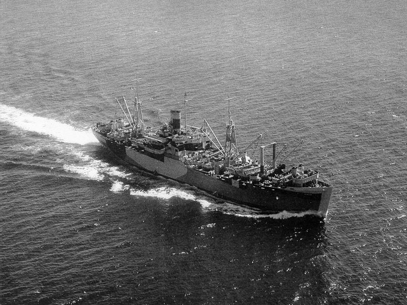 The U.S. Navy attack cargo ship USS Algol (AKA-54) underway off the coast of southern California, 22 September 1944.